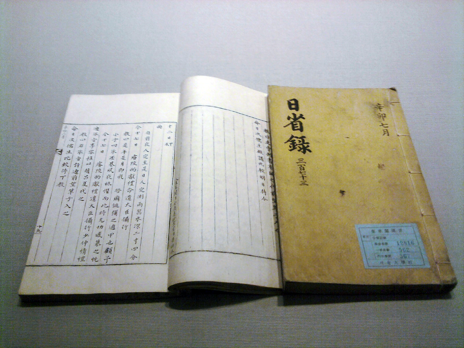 Ilseongnok displayed in Seoul National University Kyujanggak Institute for Koreanology Studies